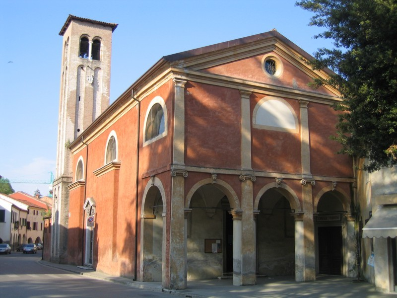 Oderzo (Treviso, Veneto, Italy). Mary Magdalene's church.